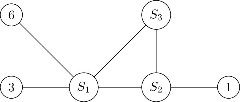 In File:Krausz-Partition 2.png we see a given line graph partitioned into complete subgraphs. This image depicts the underlying root graph.